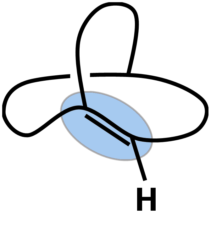 Bredt-Wiseman (double bond position in bridged bicyclic compounds)